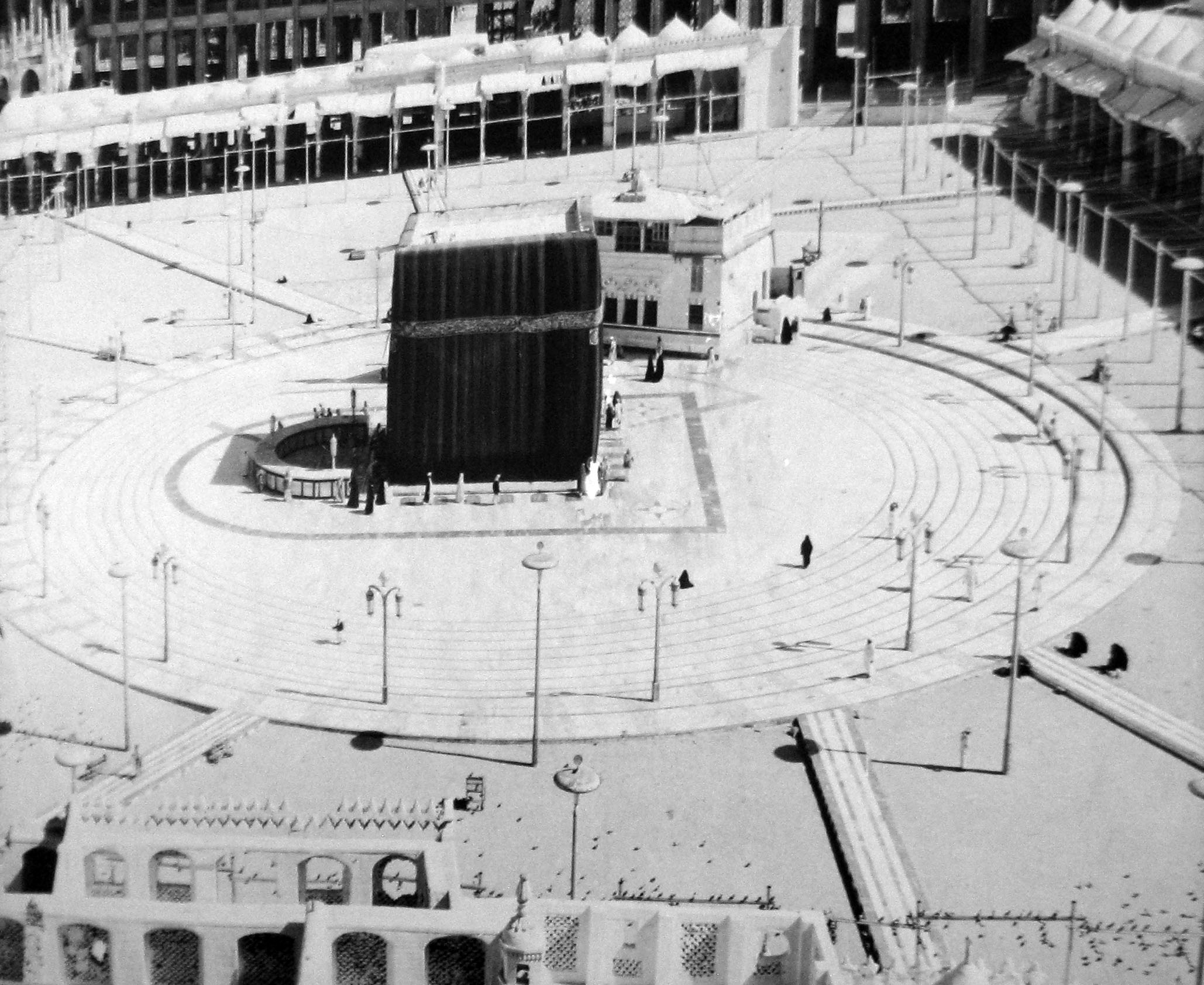 Kaaba old